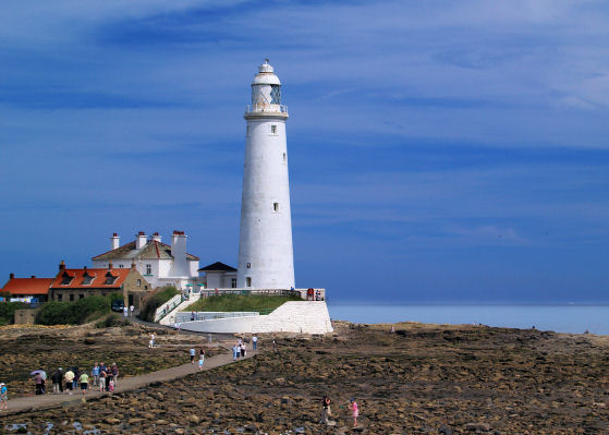 Causeway to St Mary's lighthouse Whitley Bay. 137 steps to top!